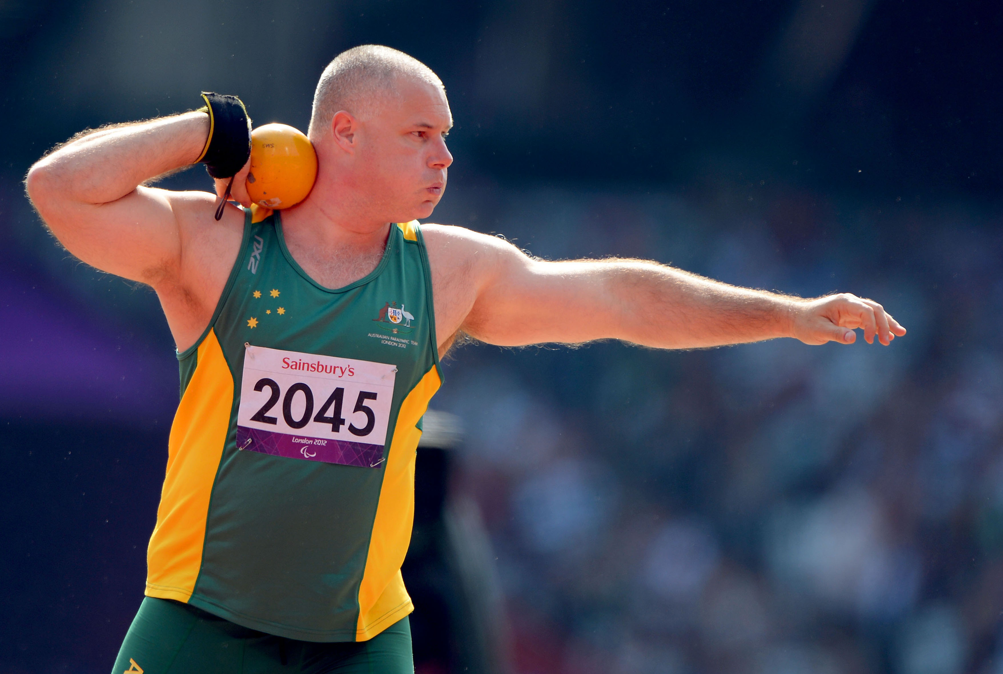 Photograph of Australian Paralympic team member Russell Short at the 2012 Summer Paralympic Games in London